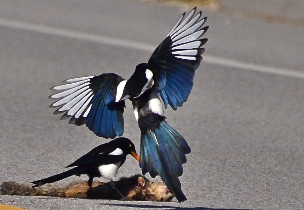 Two Yellow-billed Magpies (Pica nuttalli) sharing a roadkill. California, United States